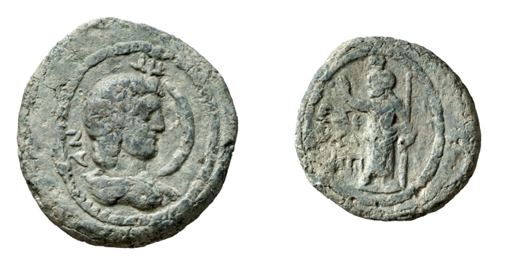 roman Tessera. Avers: Antinoos with Hem-hem-crown and Moon; Revers: Serapis with Kalathos